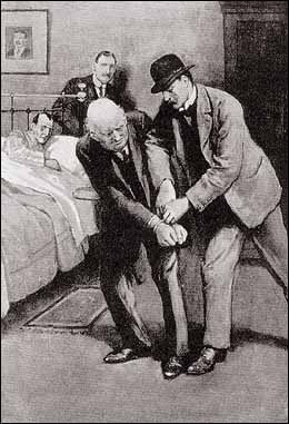 Sherlock Holmes in "The Adventure of the Dying Detective"